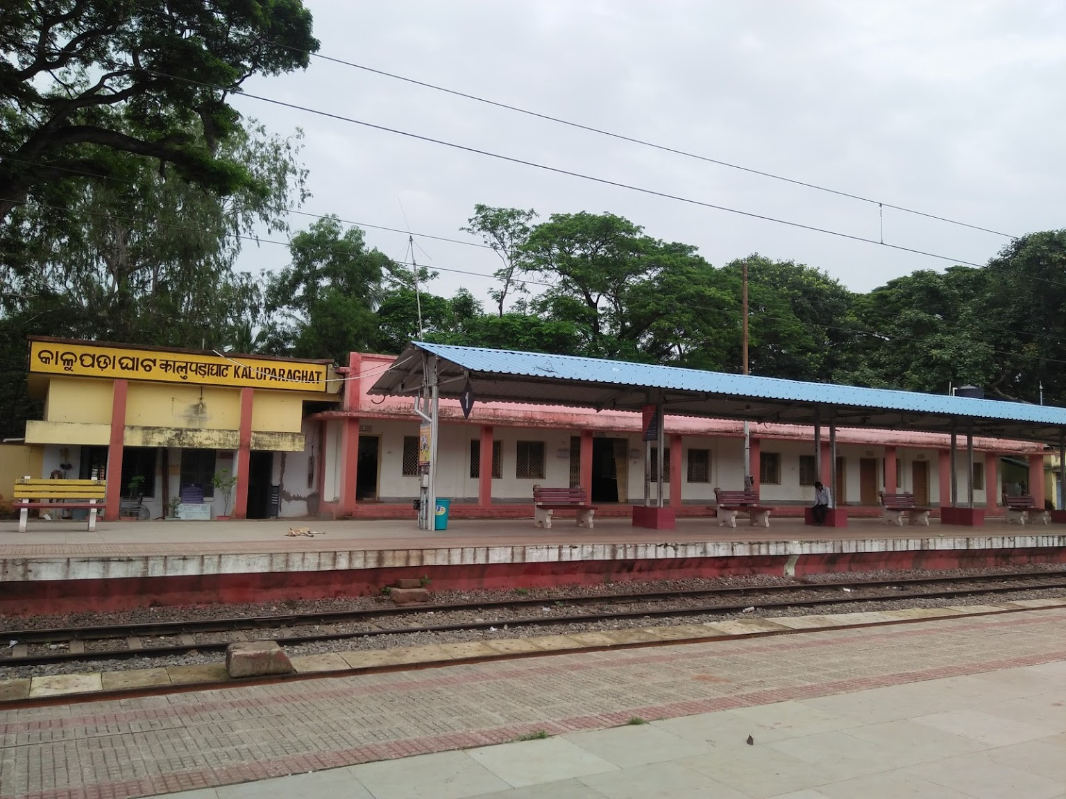 This is the Picture of Kalupara Ghat railway station